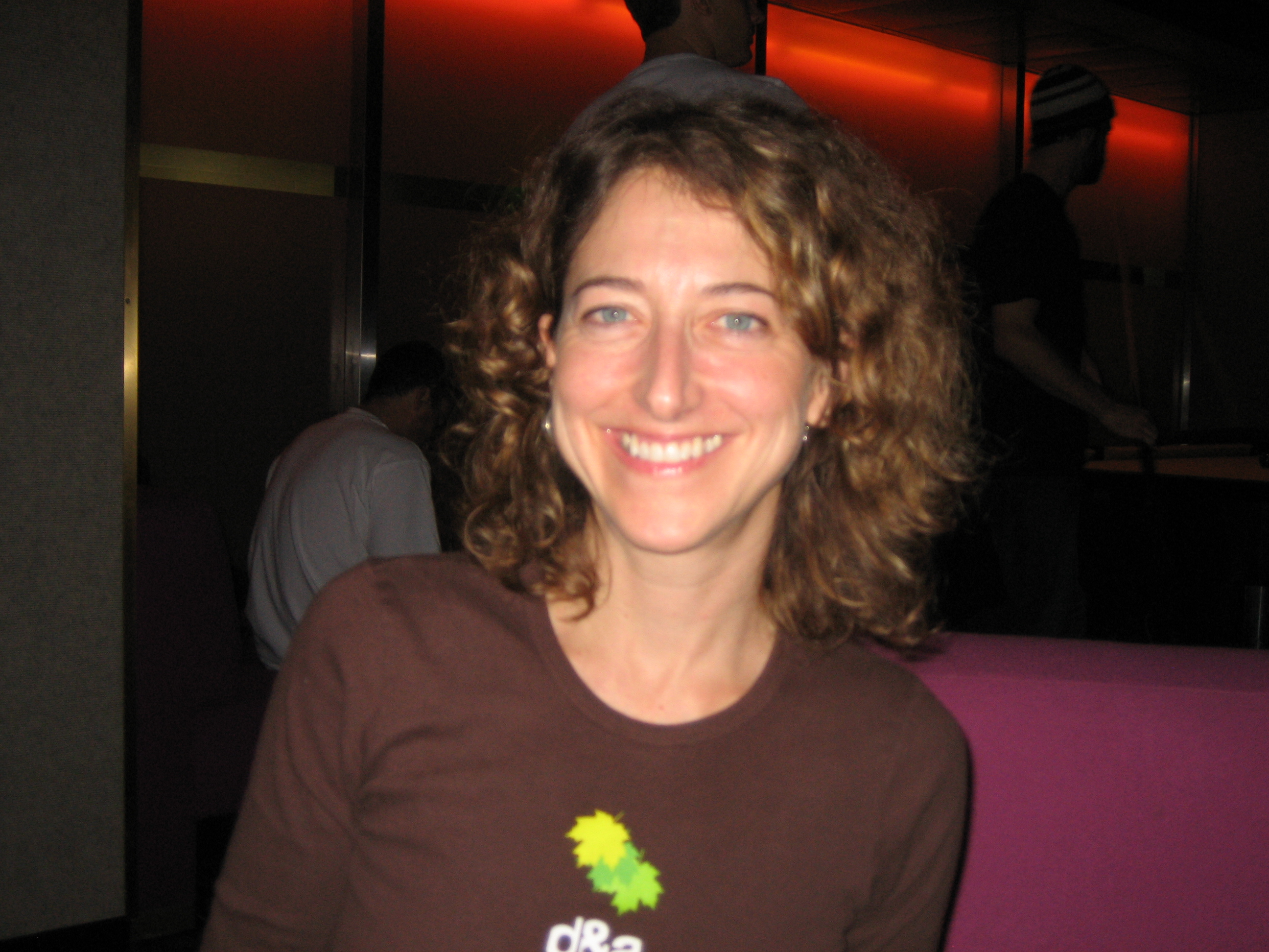 Photo of the designer